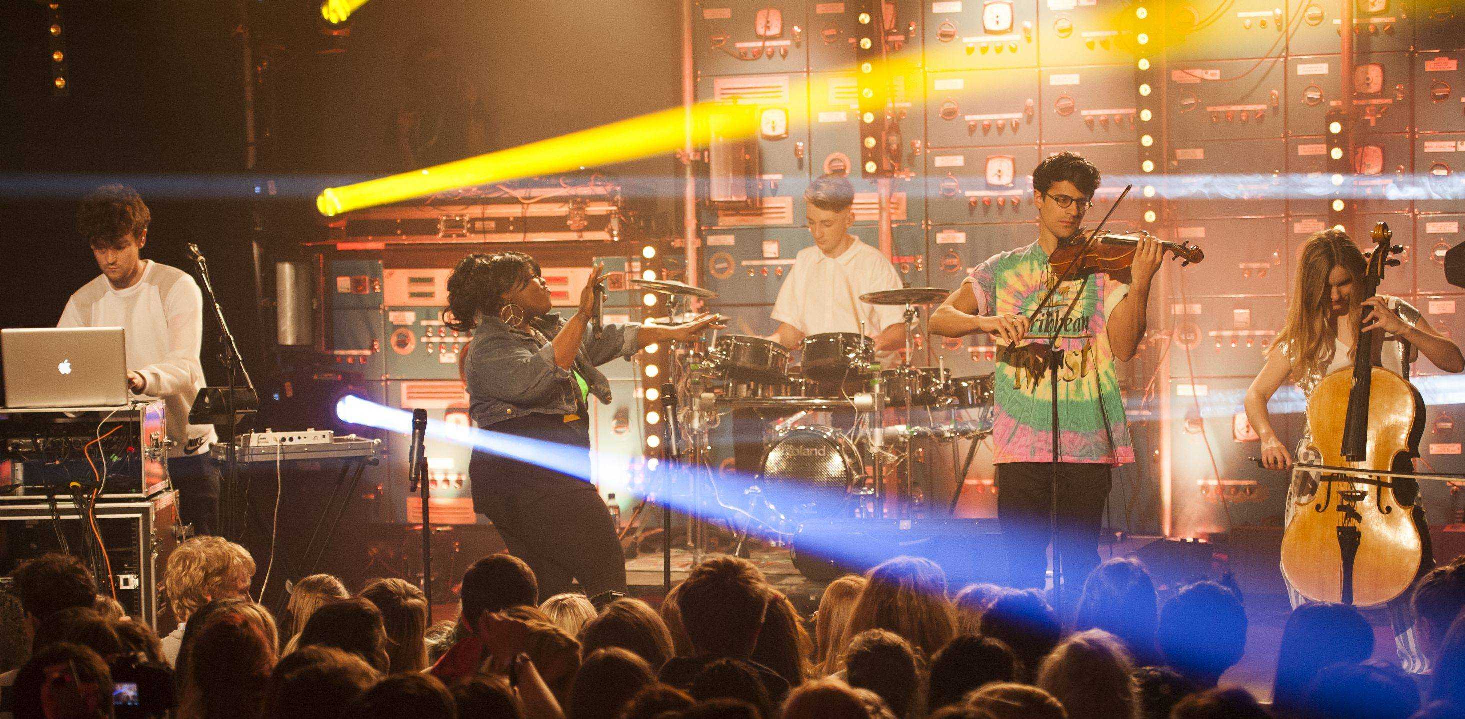 Clean Bandit Concert for Young Volunteers from National Citizen Service (NCS), June 13, 2013.